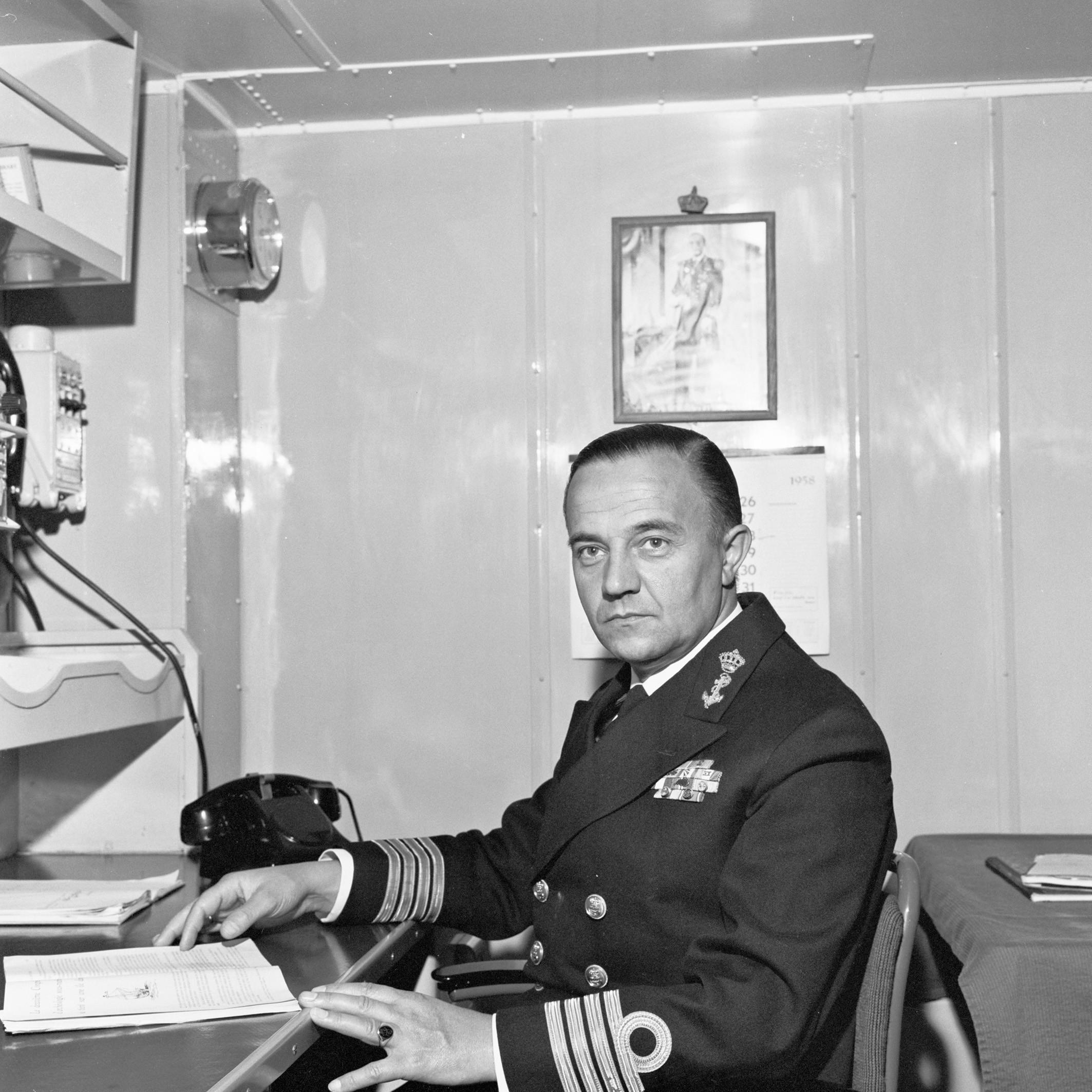 Former Dutch prime minister Piet de Jong as navy captain and CO of HNLMS Gelderland.